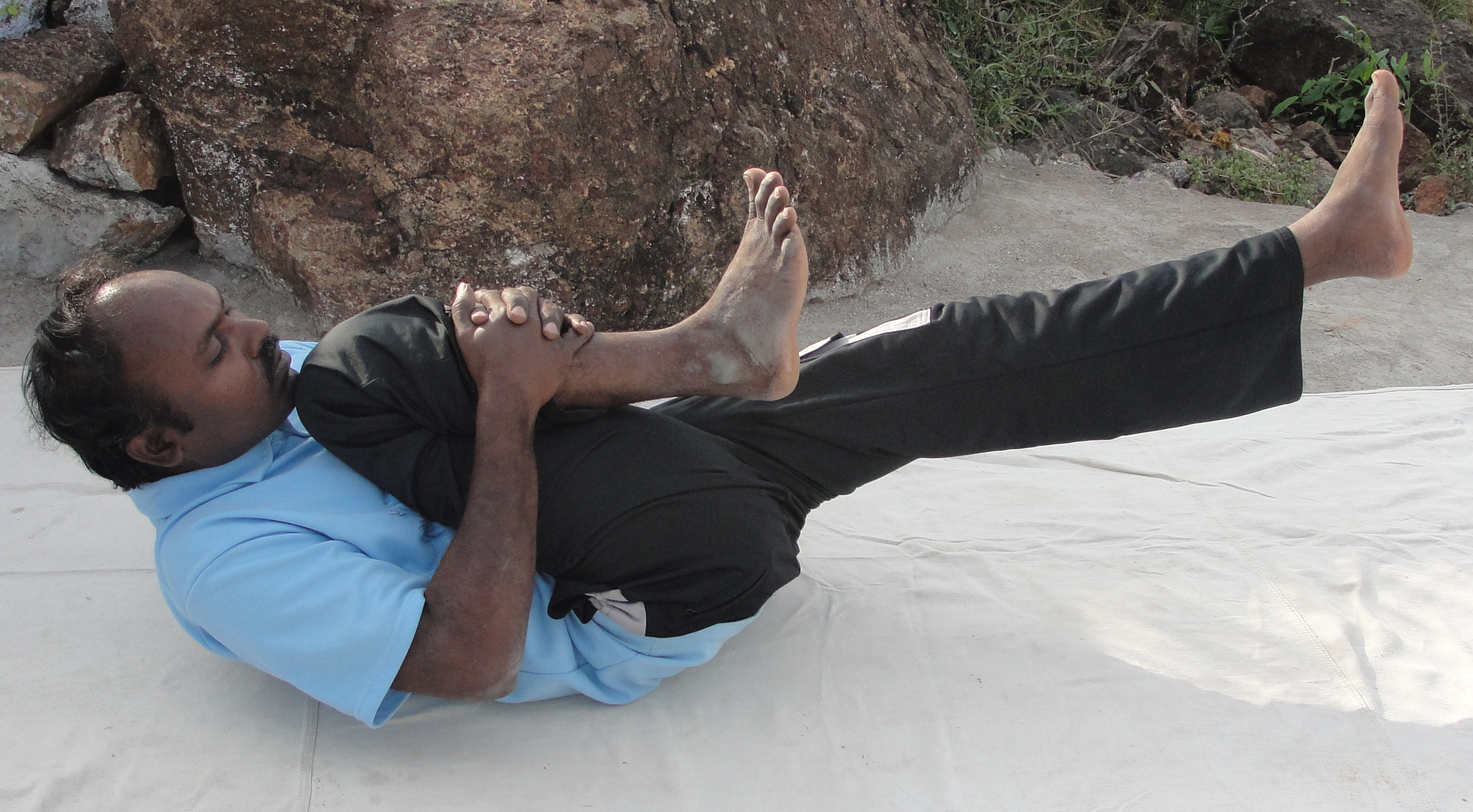 A style of pavanamuktasana